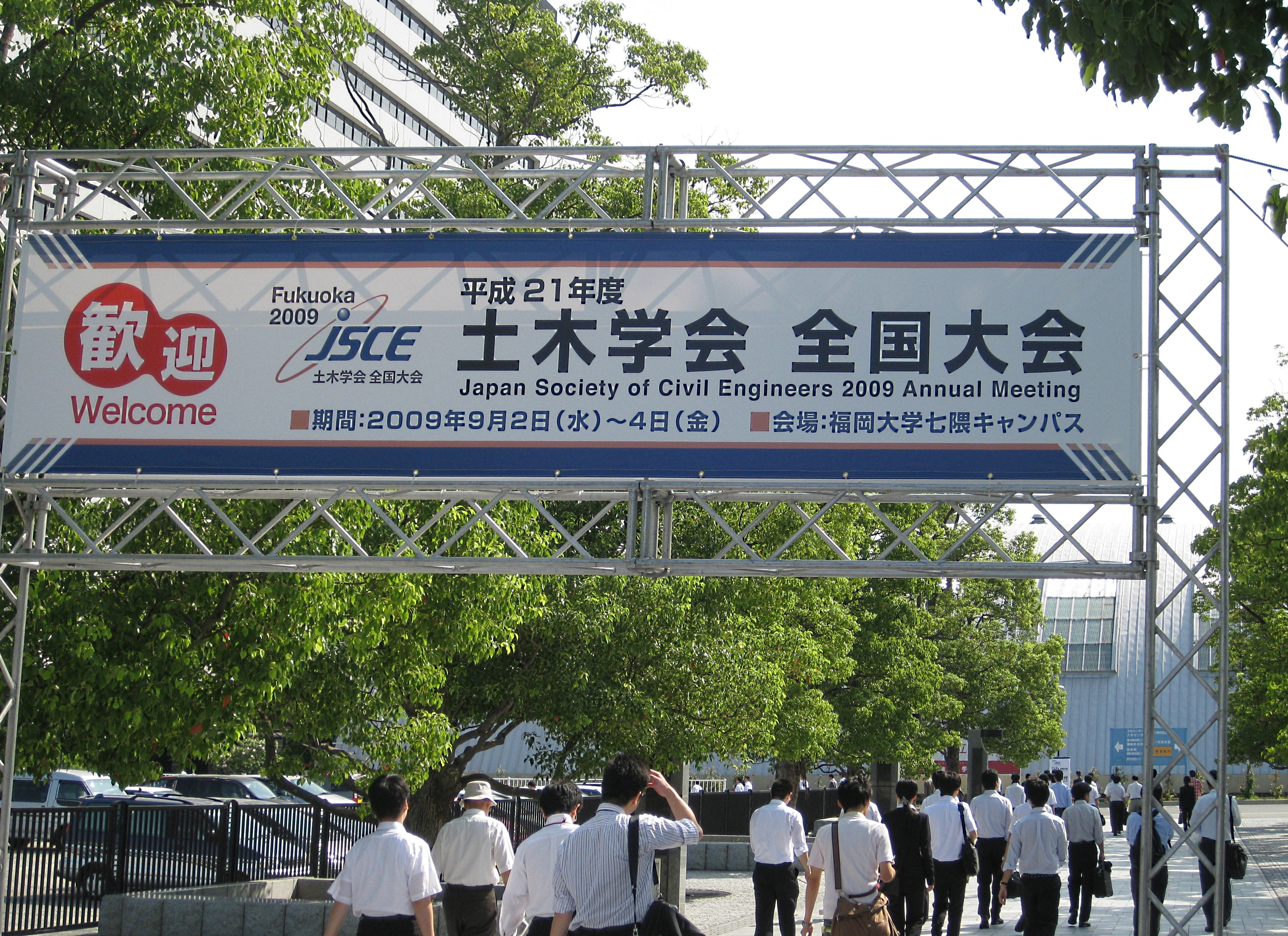 Welcome message of Japan Society of Civil Engineers 2009 Annual Meeting